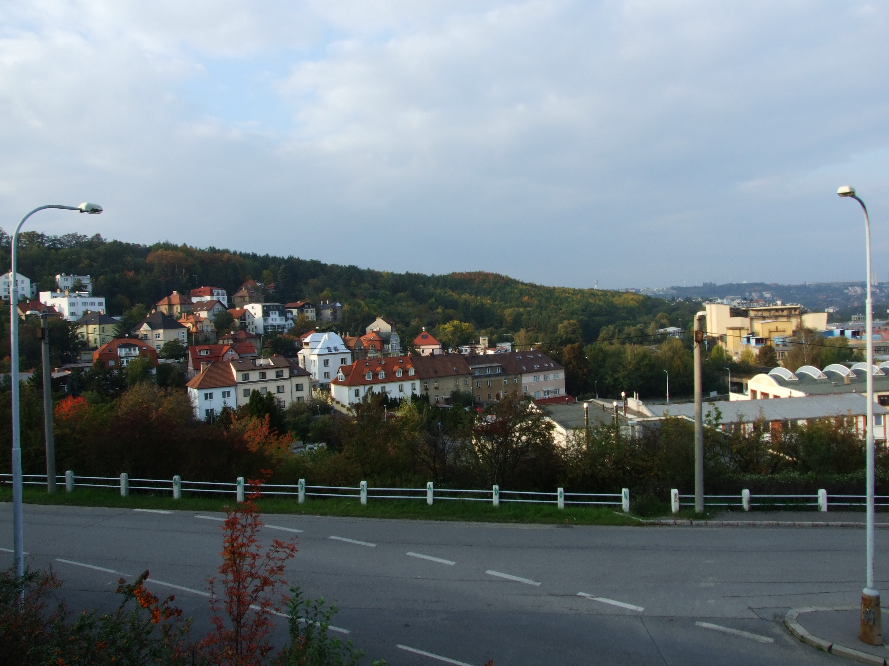 Prague-Jinonice